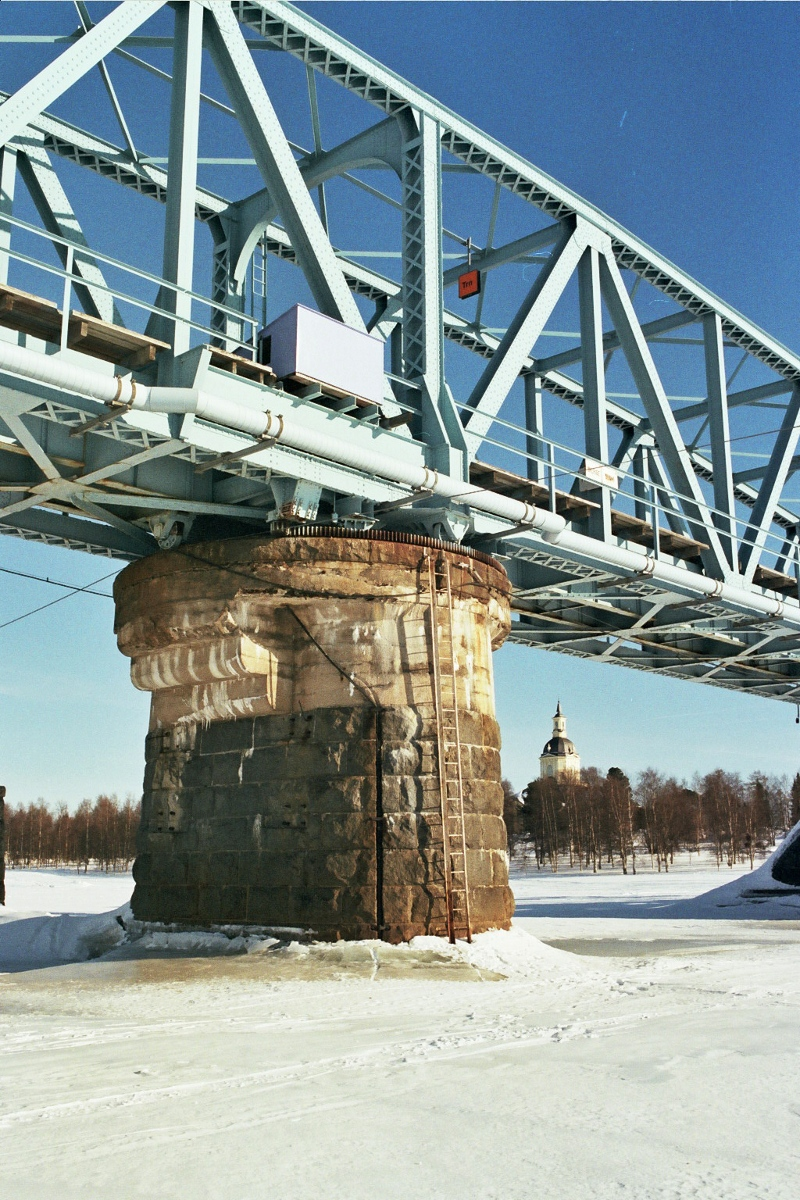 A detail from the railway bridge between Haparanda, Sweden, and Tornio, Finland. A part of the bridge was originally constructed so that it could be turned open.